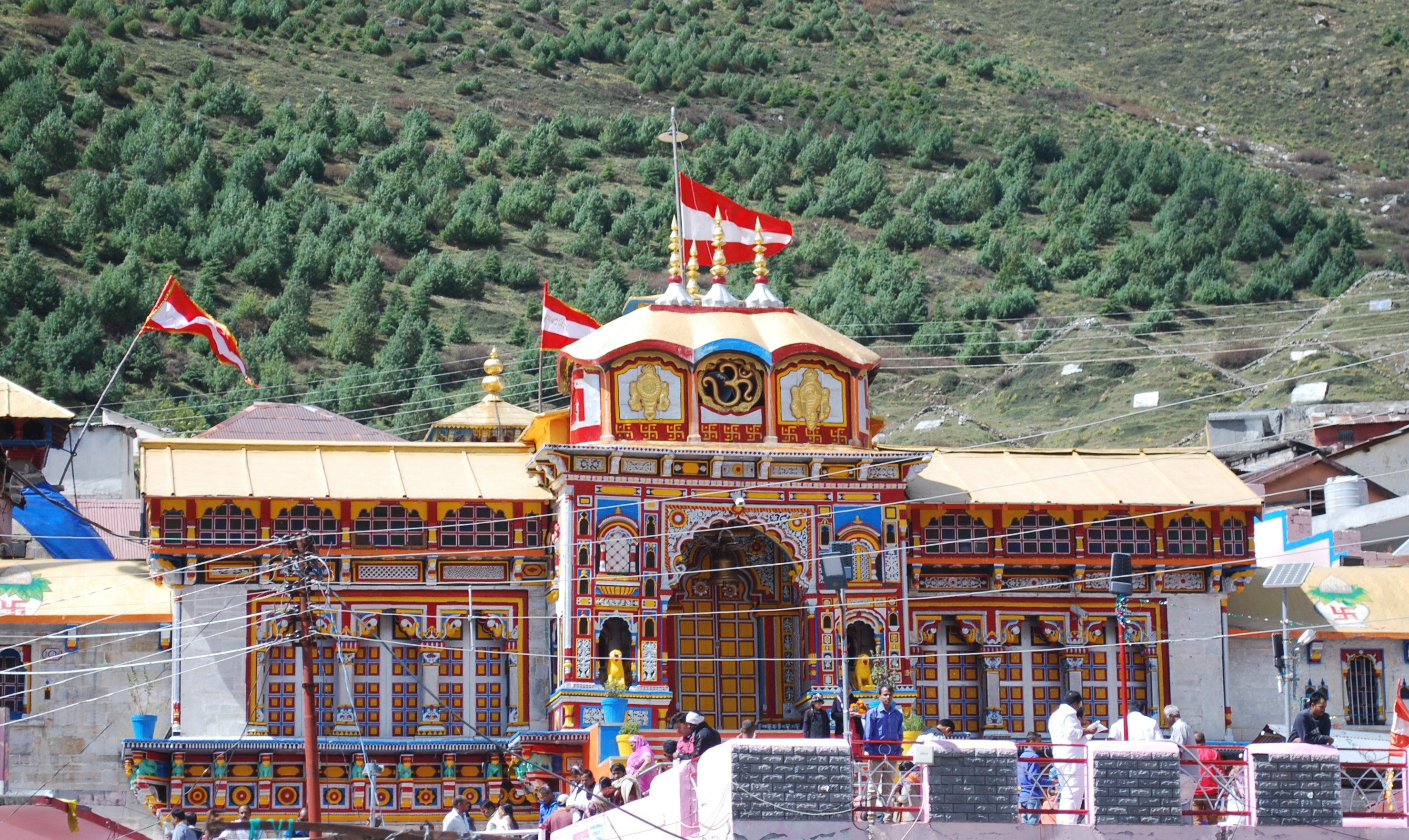 Badrinath is a holy town and a nagar panchayat in Chamoli district in the state of Uttarakhand, India.